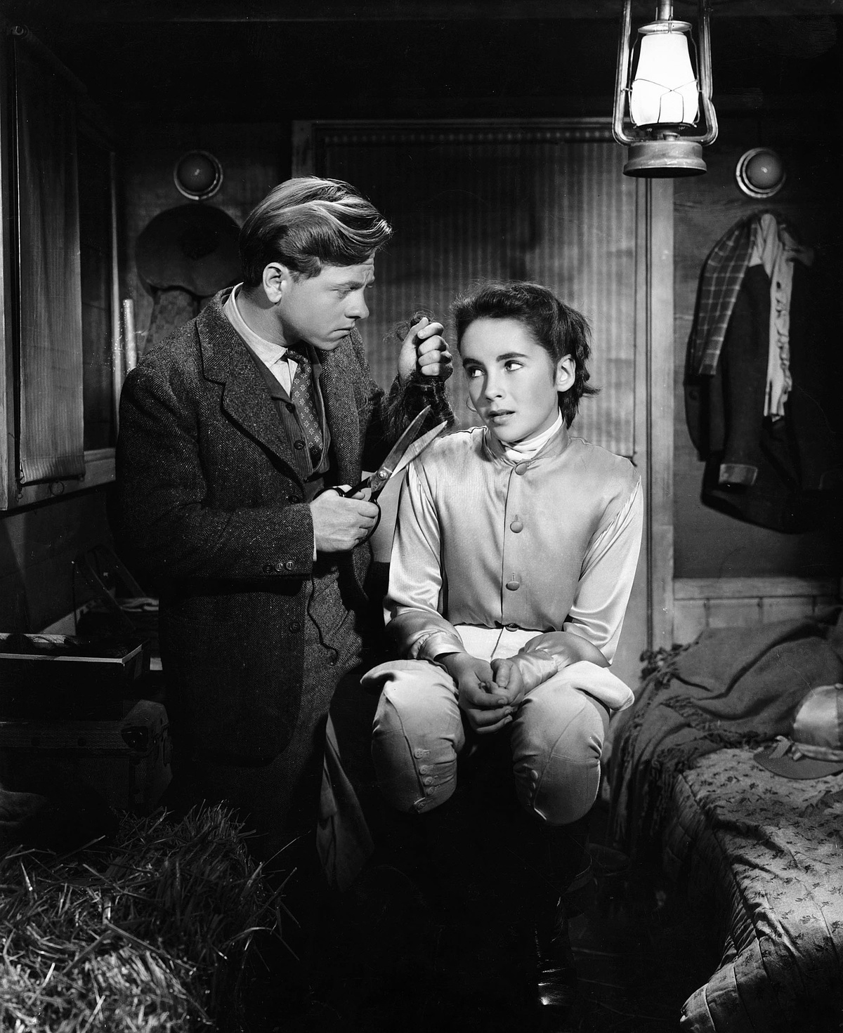 Promotional still from the 1944 film National Velvet, published in New Movies, the National Board of Review Magazine.